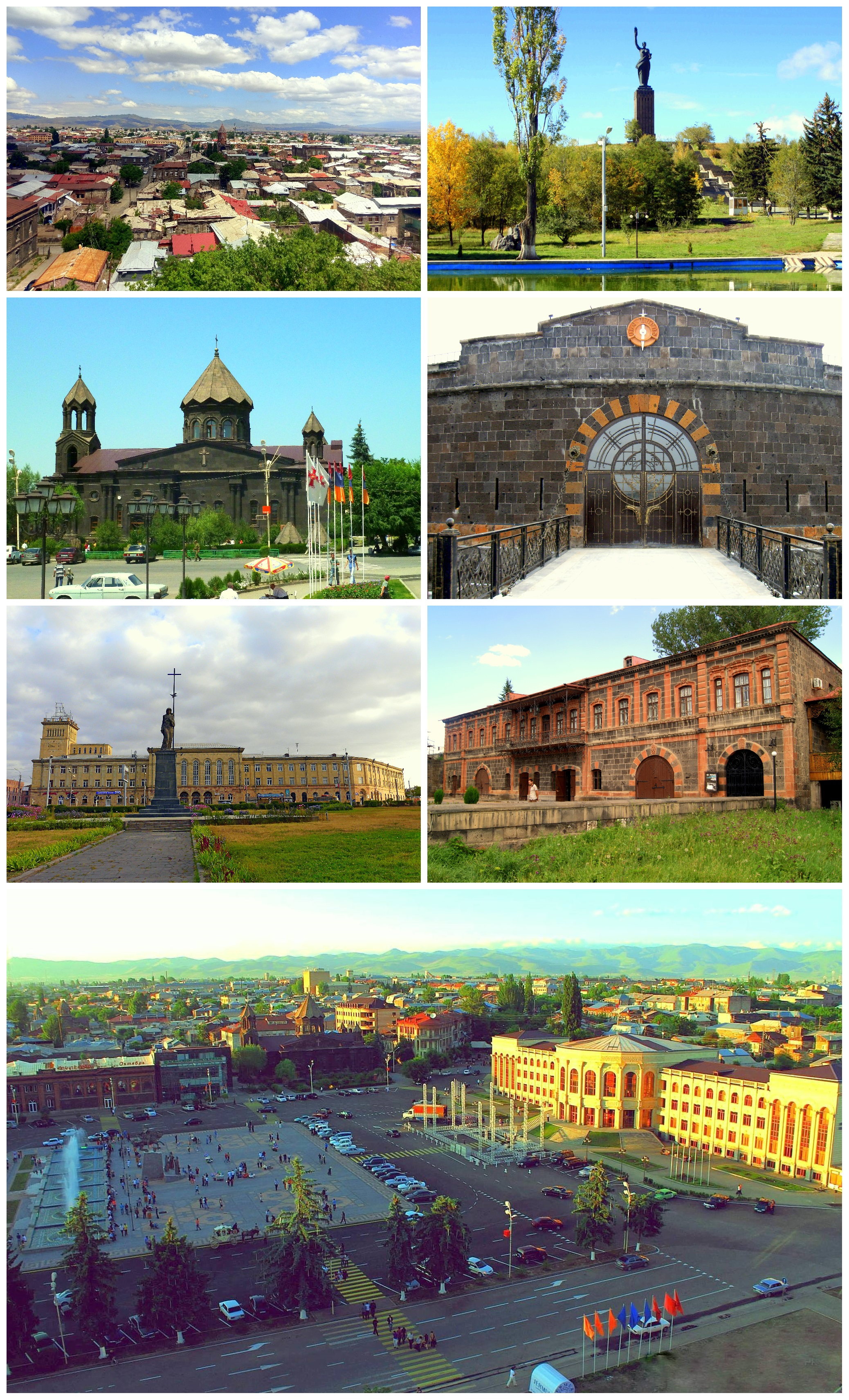 Gyumri collection